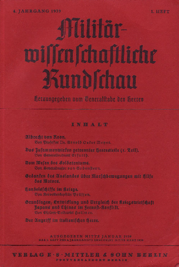 Cover of the military magazine